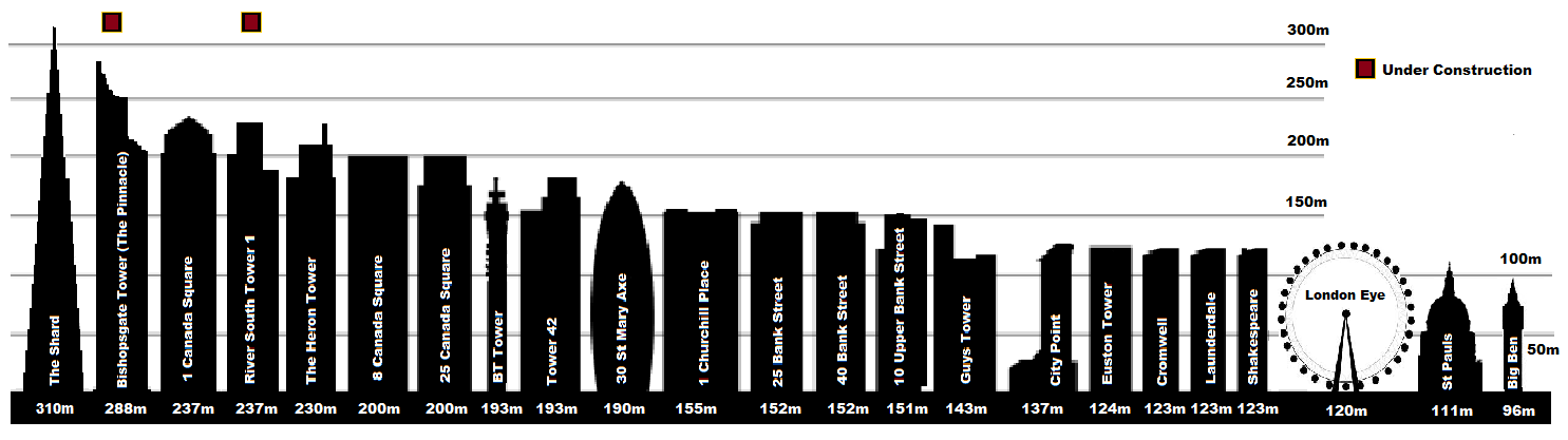 London Skyline new image inspired by work of ed g2s